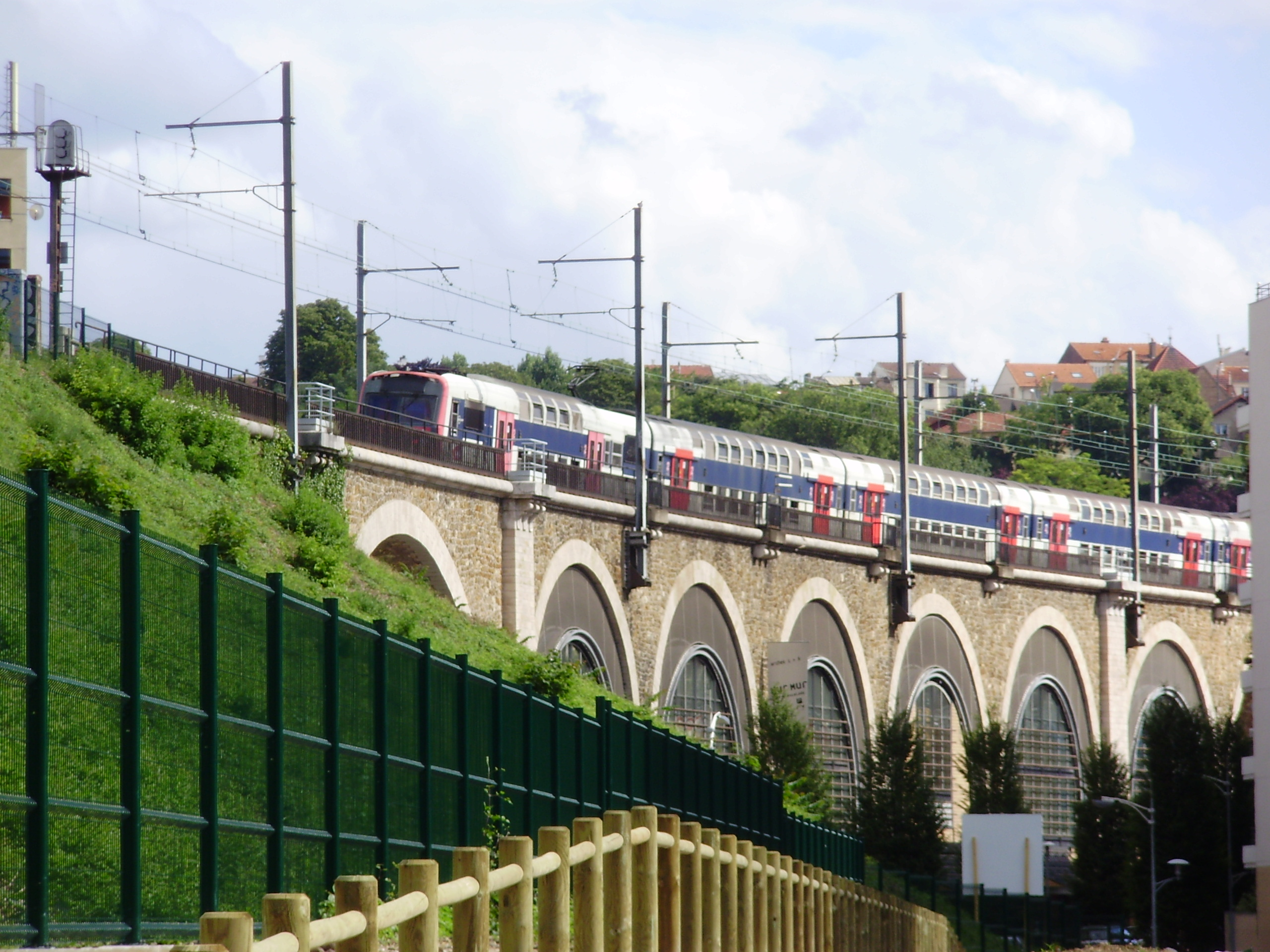 Railway bridge of Issy, in Issy-les-Moulineaux, Hauts-de-Seine, France, from the Garibaldi boulevard in the west of the viaduct